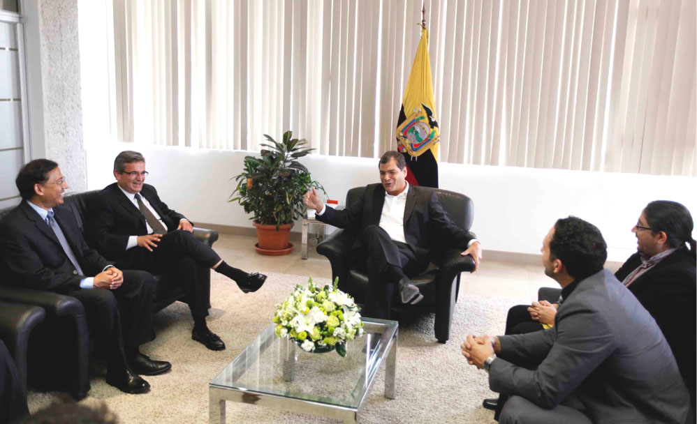 Ares Rosakis, G. Ravichandran, and José Andrade with Ecuador's President Rafael Correa and Secretary René Ramírez, SENESCYT, discussing Yachay International University and City of Knowledge.